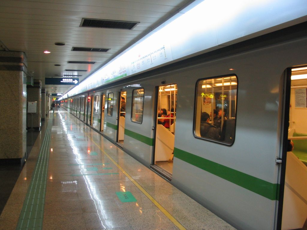 Line 2 Platform of Shanghai Science & Technology Museum Station